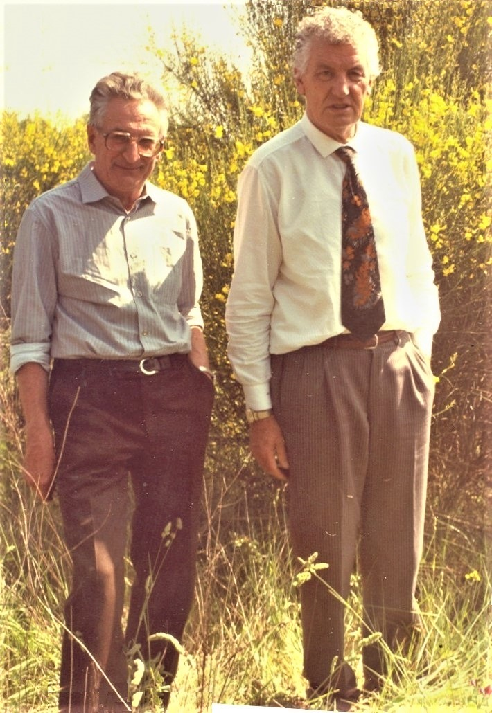 Bruno Cetto with Meinhard Moser